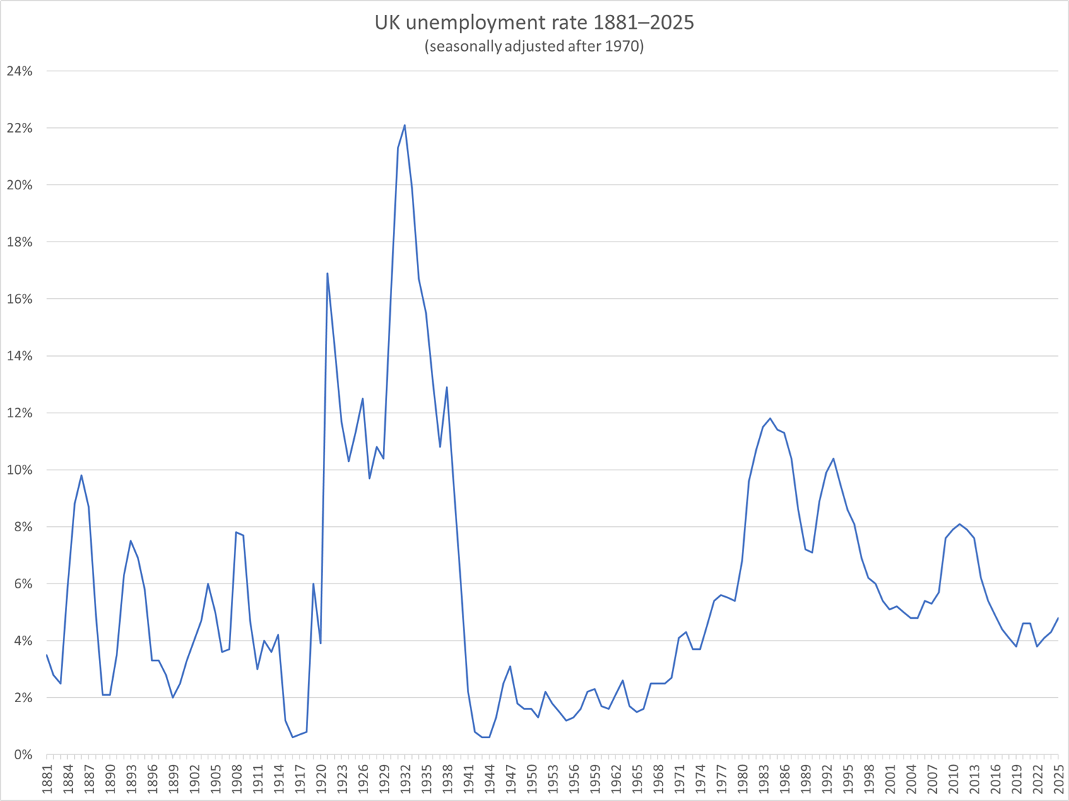 Data for 1881–1989 from Unemployment statistics from 1881 to the present day (1996) by James Madden and Paul McDonald. Data for 1990–present from ONS unemployment rate bulletin.